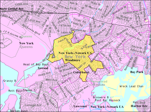 U.S. Census 2000 reference map for Woodmere, New York